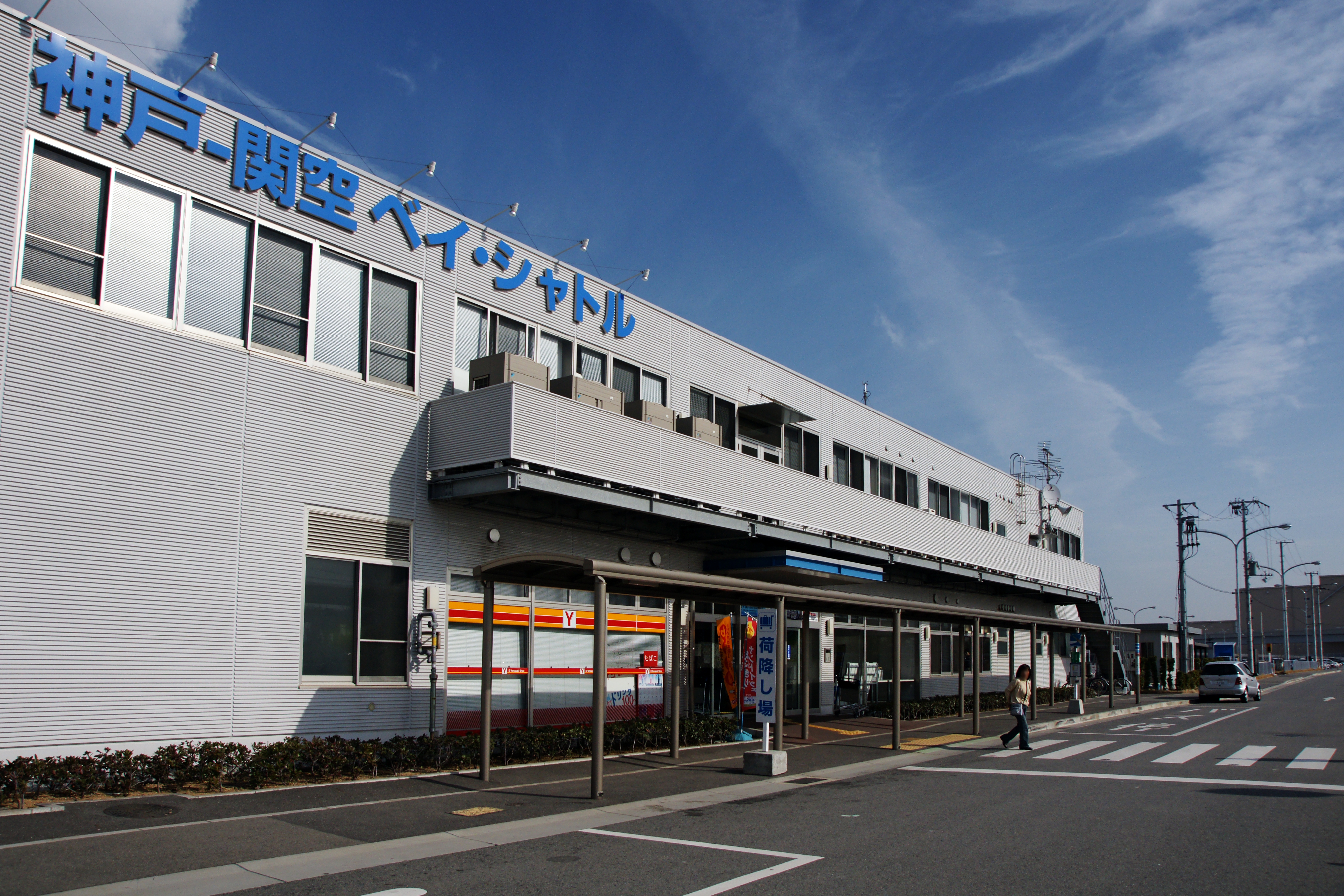 Kobe Airport Sea Access Terminal of Kobe Airport in Kobe, Hyogo prefecture, Japan